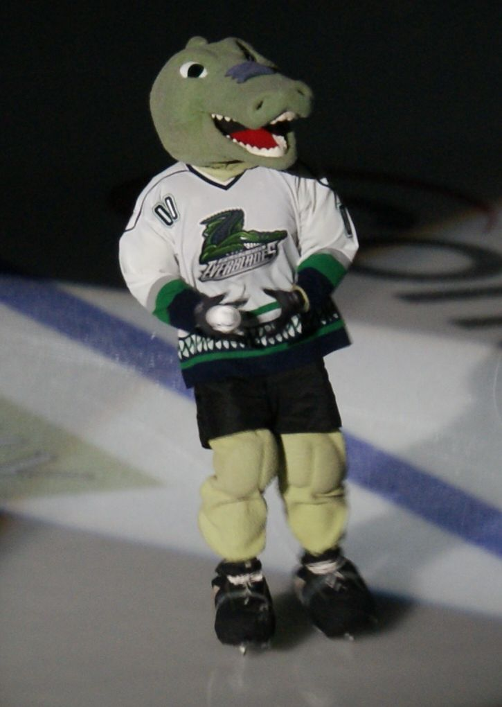 Swampee, the mascot of the Florida Everblades, before a hockey game on May 2, 2012